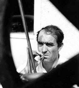 Jean Tinguely